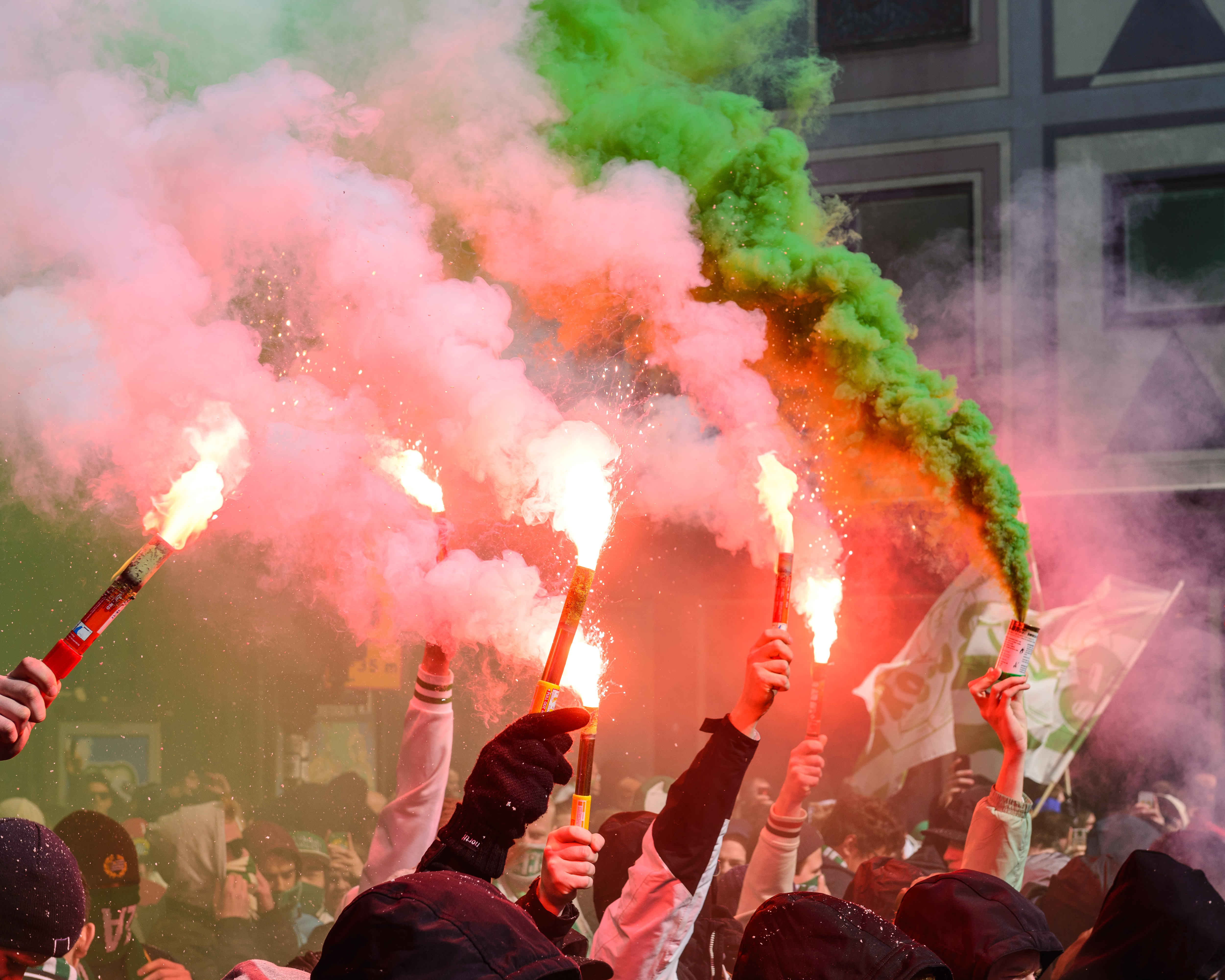 Hammarby supporters with Flares during supportermarchen, the tradionella walk from central Södermalm to the team's home stadium, Söderstadion , before the season's first home game.